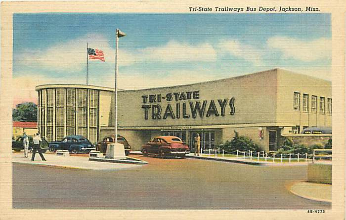 Tri-State Trailways station in Jackson, Mississippi pictured c. 1949 in a postcard